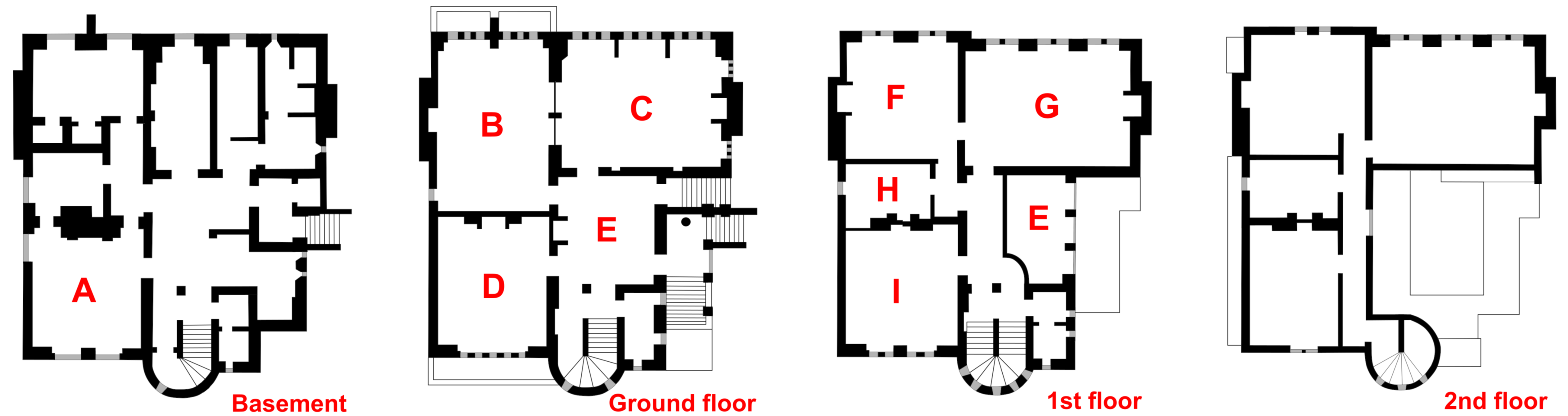 Plan of the Tower House, London. After "Survey of London: Volume 37, Northern Kensington", (1973) and 28 April 1880 edition of "The Building News"